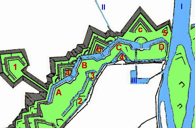 Stylized map of the northern fortifications in Maastricht, the Netherlands. This part of the fortifications (Nieuwe Bossche Fronten) was largely rebuilt in 1815-1821. Some older parts (2, 3, 4 and 5) were re-used; the bastions A, B, C and D and the ravelins a, b and c were new. The fortress Fort Willem I (1) was also added at this time. The fortifications could be inundated, using water from the river Meuse (I) or, through a canal, from the small river Jeker in the south. Zuid-Willemsvaart (II) and Bassin (III) were built between 1821 and 1826.